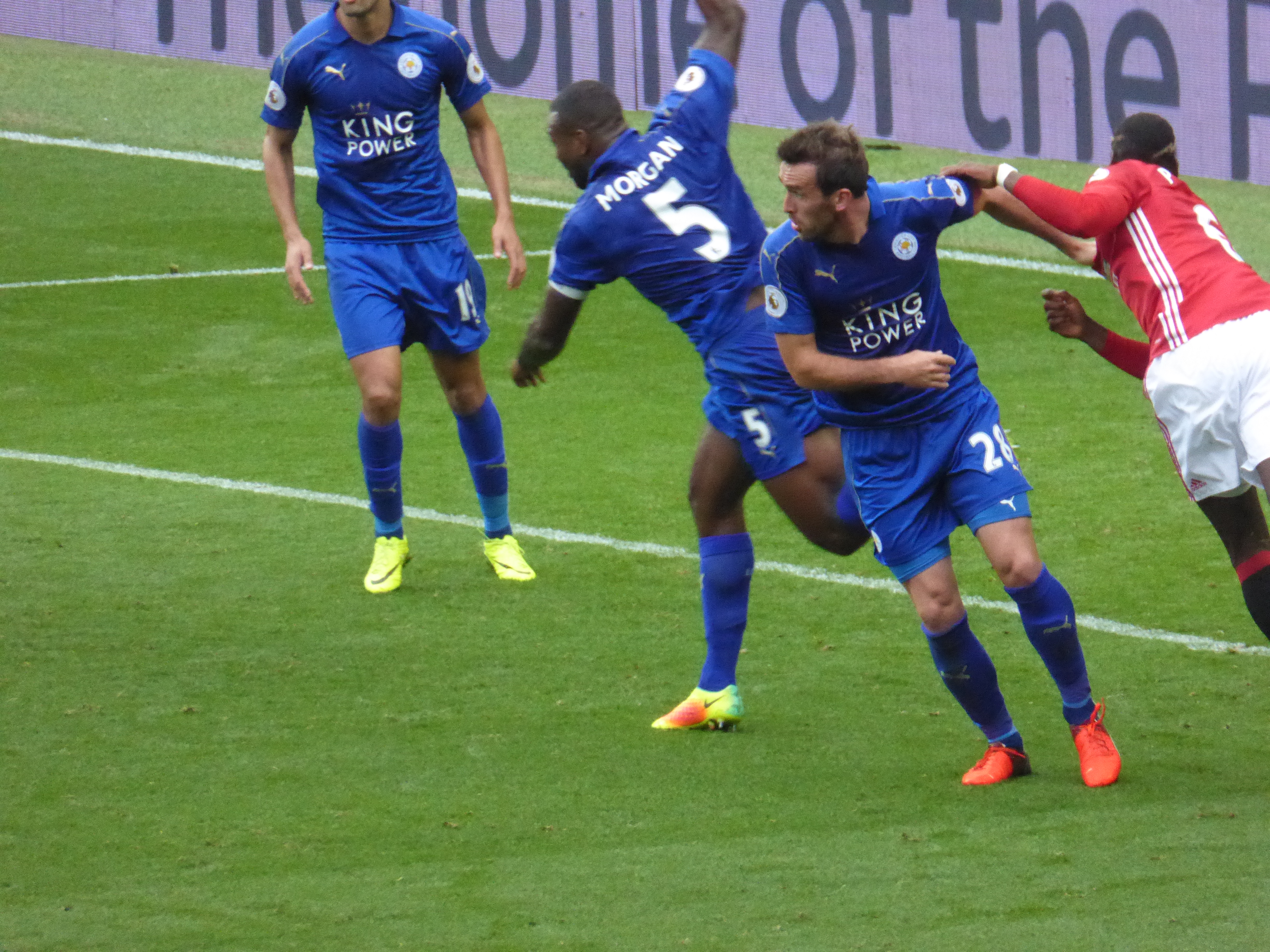 Manchester United v Leicester City (4-1), Old Trafford, Manchester, Greater Manchester, England, September 2016